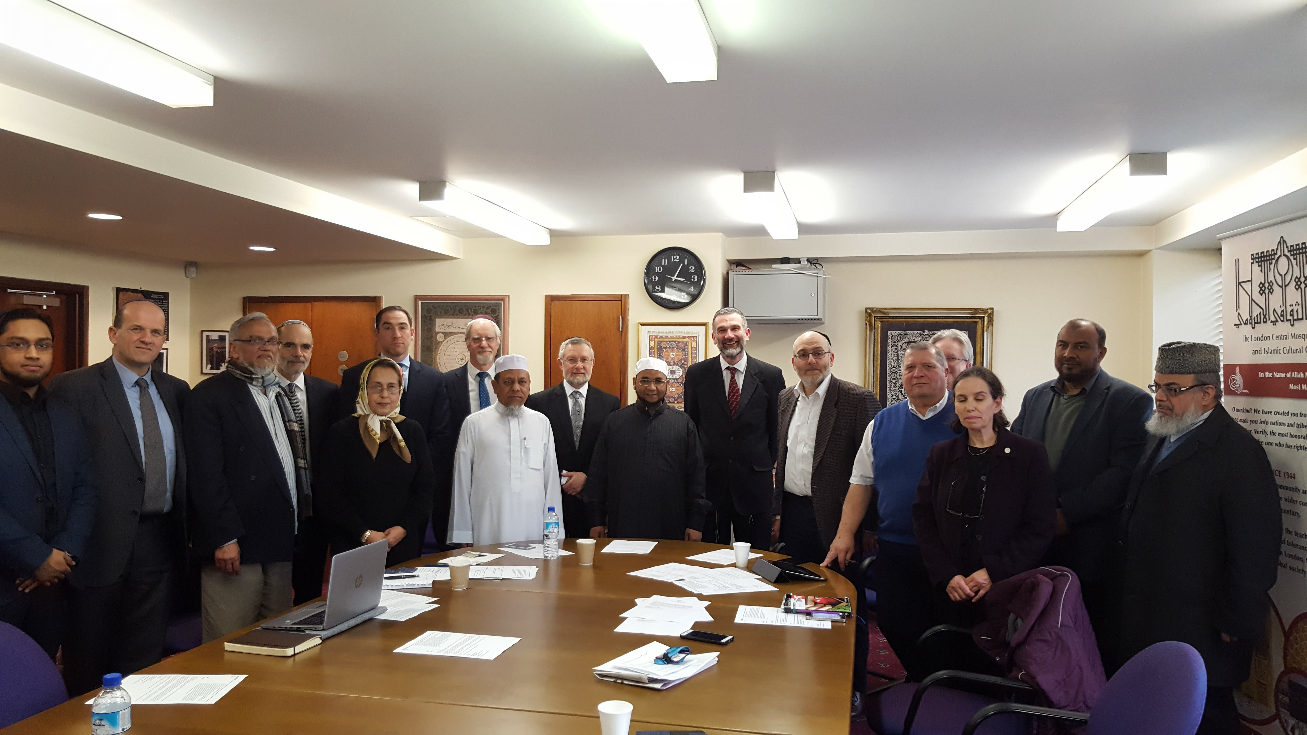 Sh. Khalifa during an interfaith meeting.